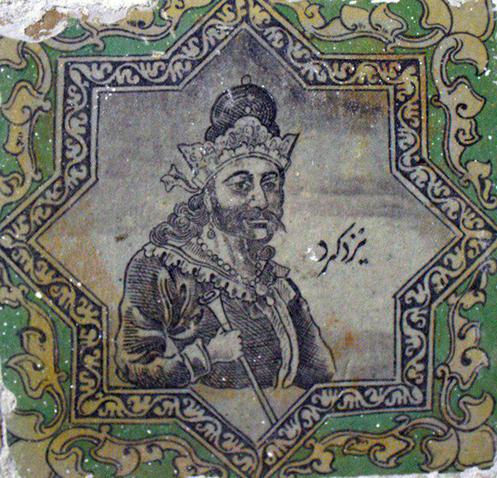 Yazdegerd III portrait in Moaven Almolk Tekiye, Kermanshah Iran